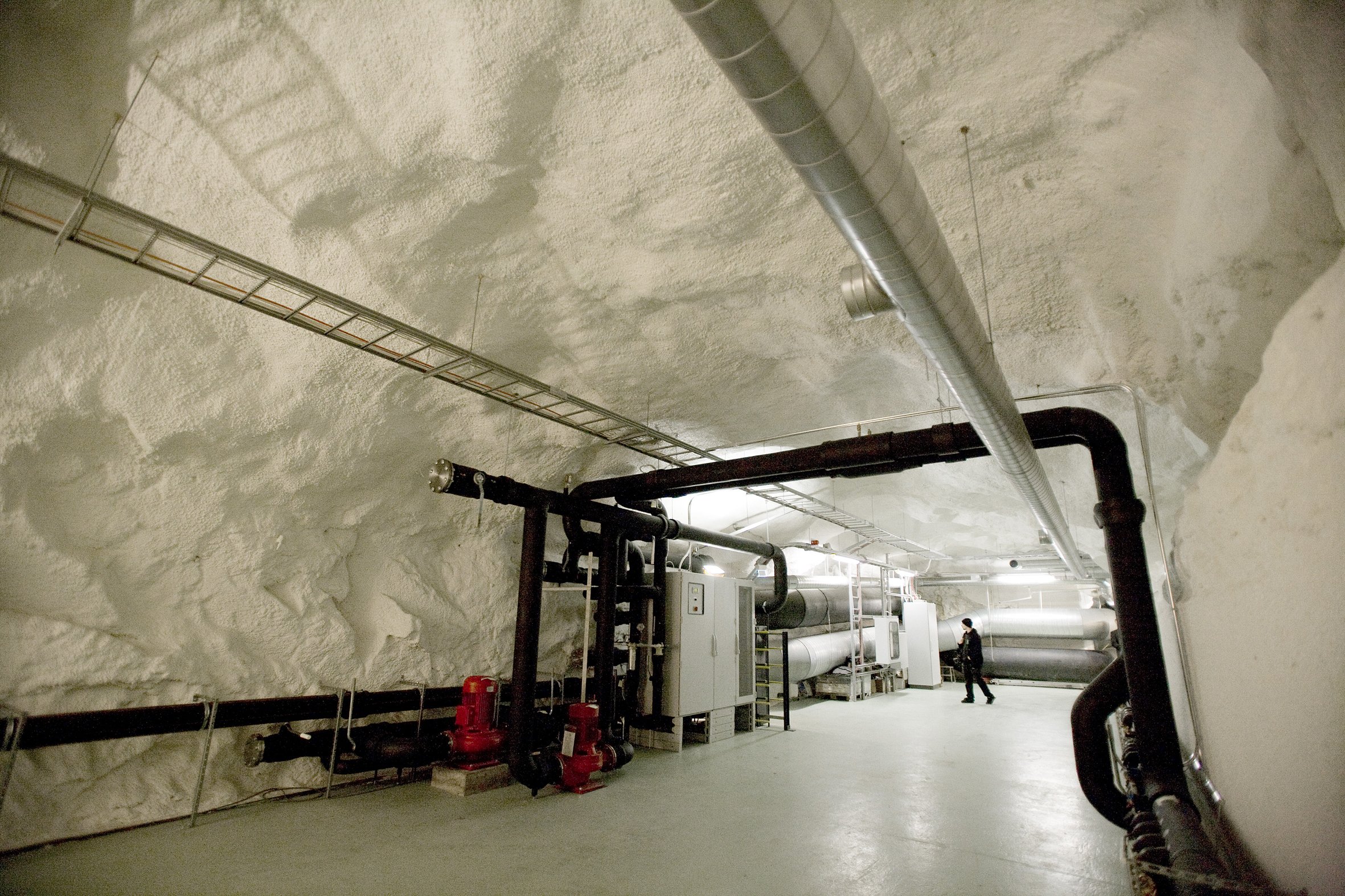 District cooling pipes in Academica data center, Helsinki, Finland.